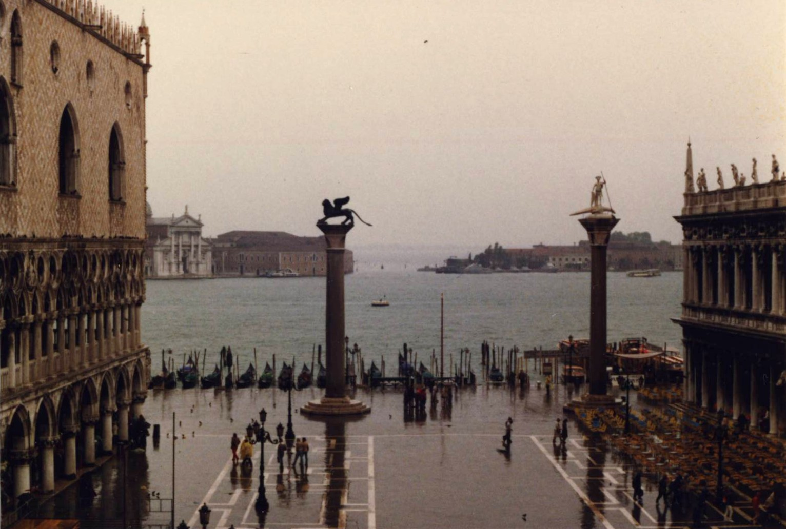 Venice, View at the sea